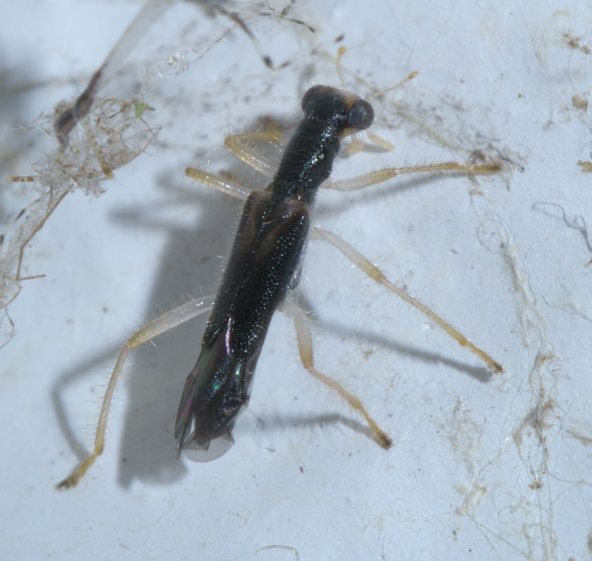 Isohydnocera curtipennis, Family: Checkered Beetles, Size: 5.2 mm, ID Confidence: 98